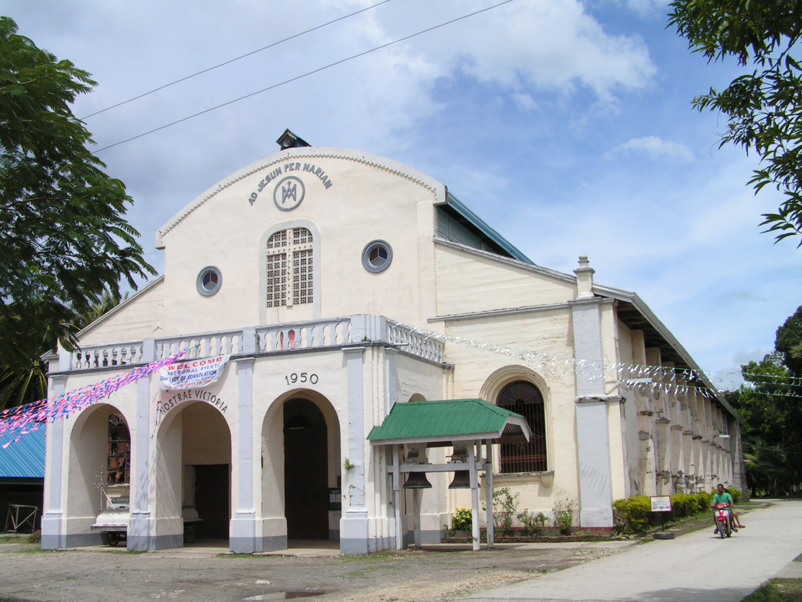 self-taken